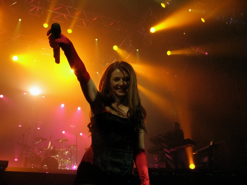 t.A.T.u. Bacardi B-LIVE in Moscow (Lena Katina)